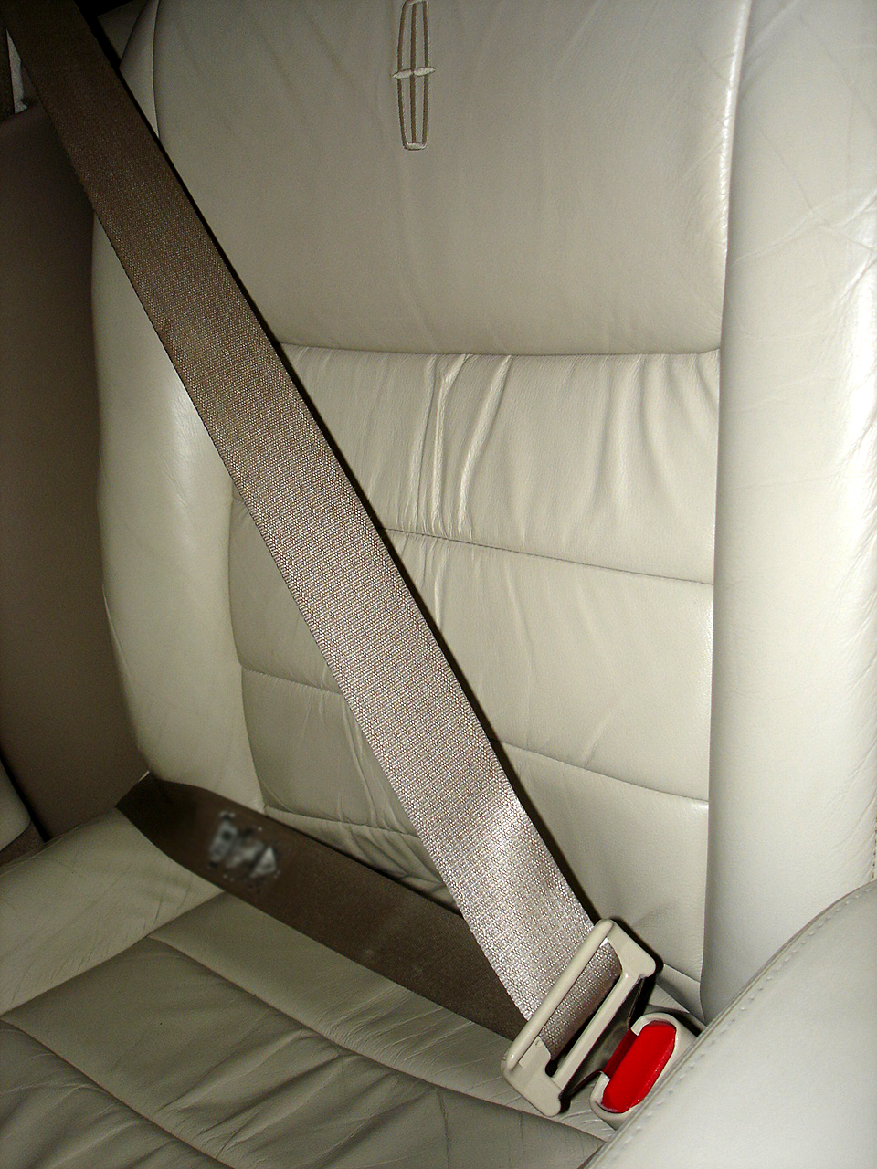 A three point seat belt in a Lincoln Town Car.